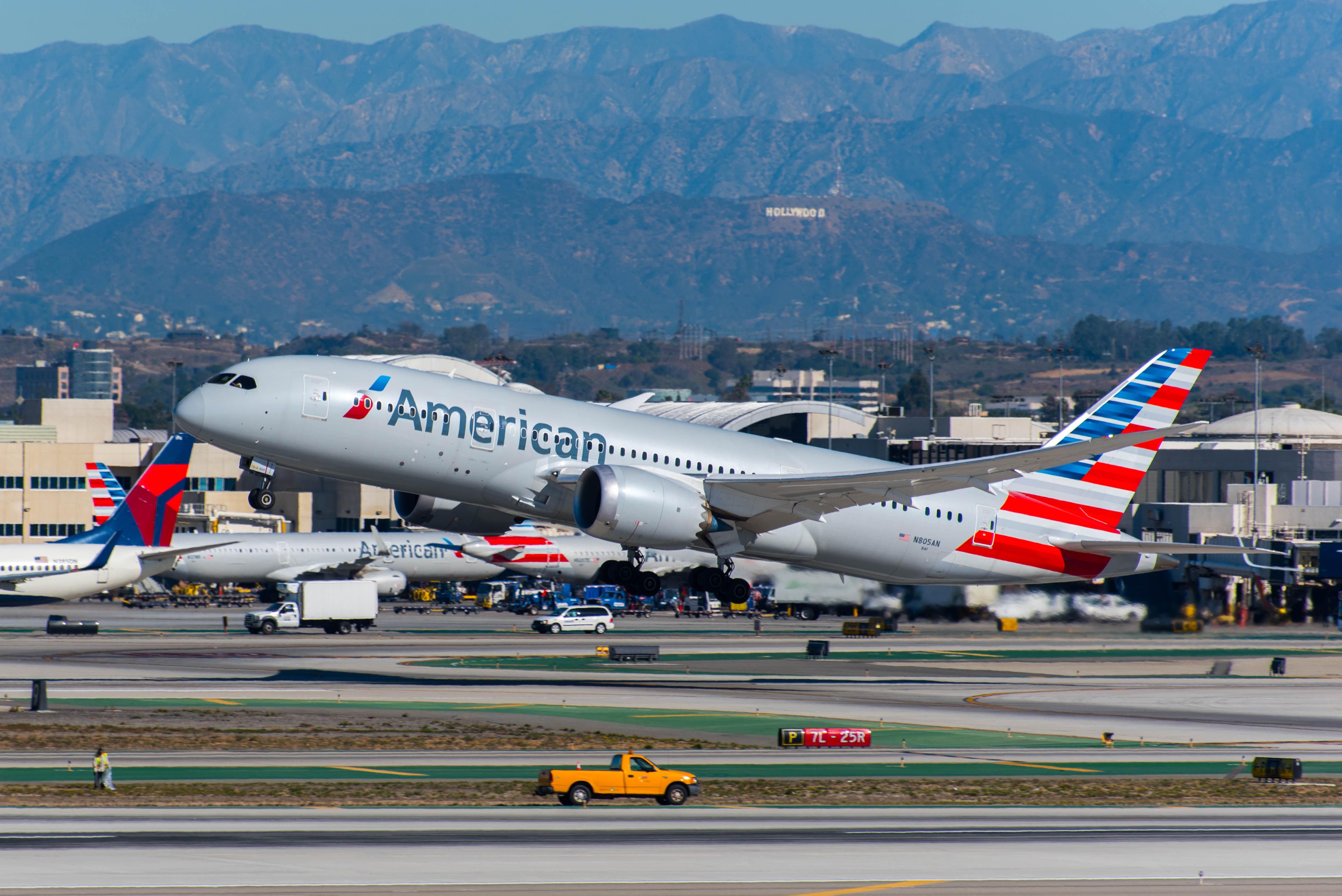 American Airlines Boeing 787-8 Dreamliner (N805AN) at LAX